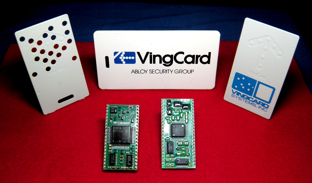 Vingcard Systems 1080 and 1090 electronic optical keycard modules manufactured in the early 1990s based on a NEC 8-bit embedded low power microcontroller.